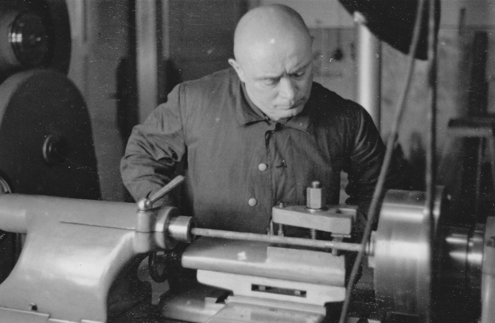 Paul Mueller, swordsmith, at a lathe, 1940.